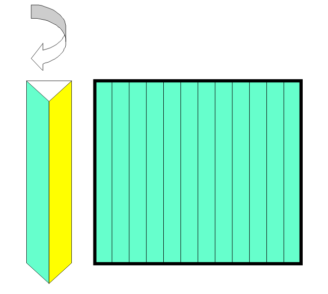 Illustration of a trivision advertising billboard